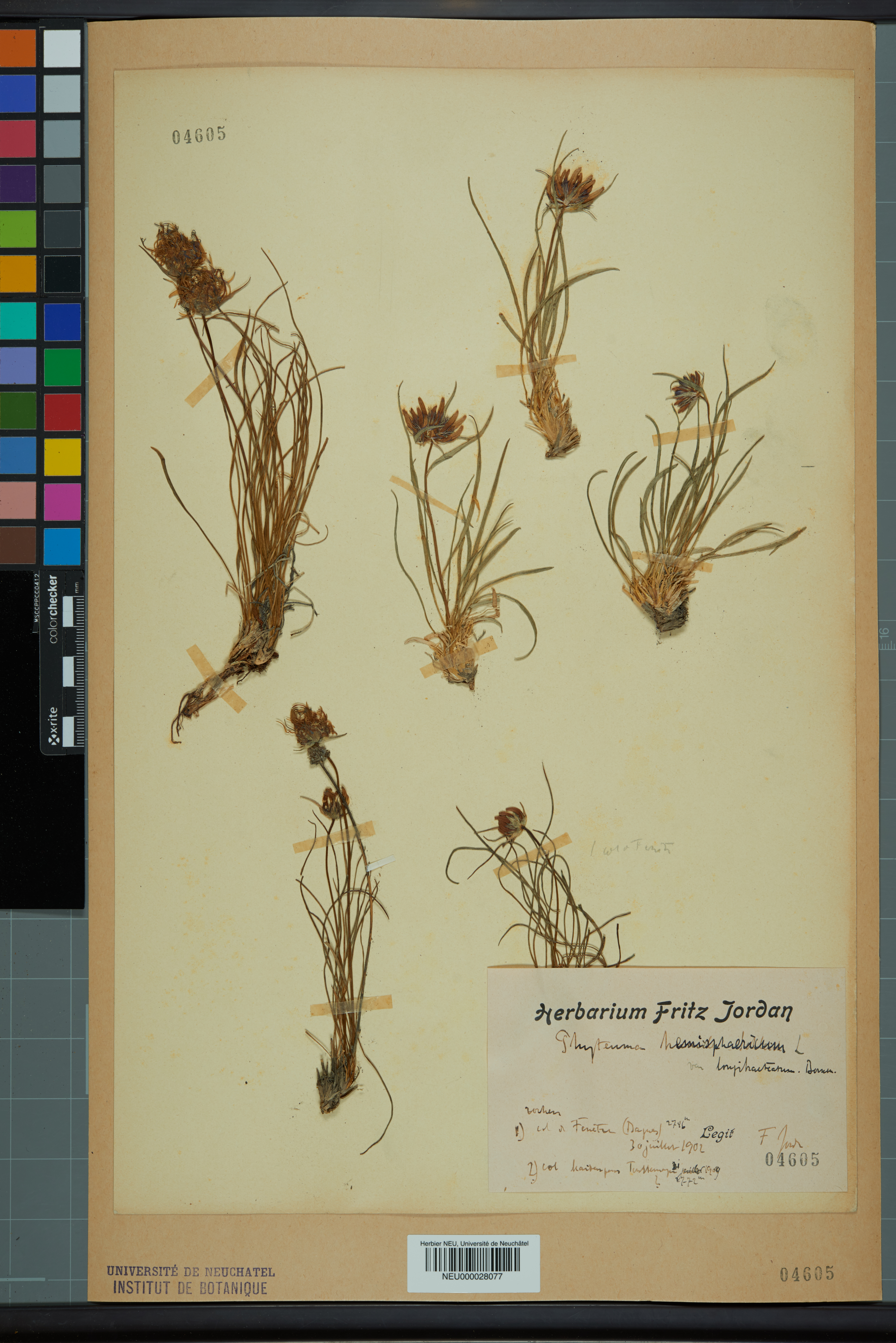 Dried pressed specimen of Phyteuma hemisphaericum